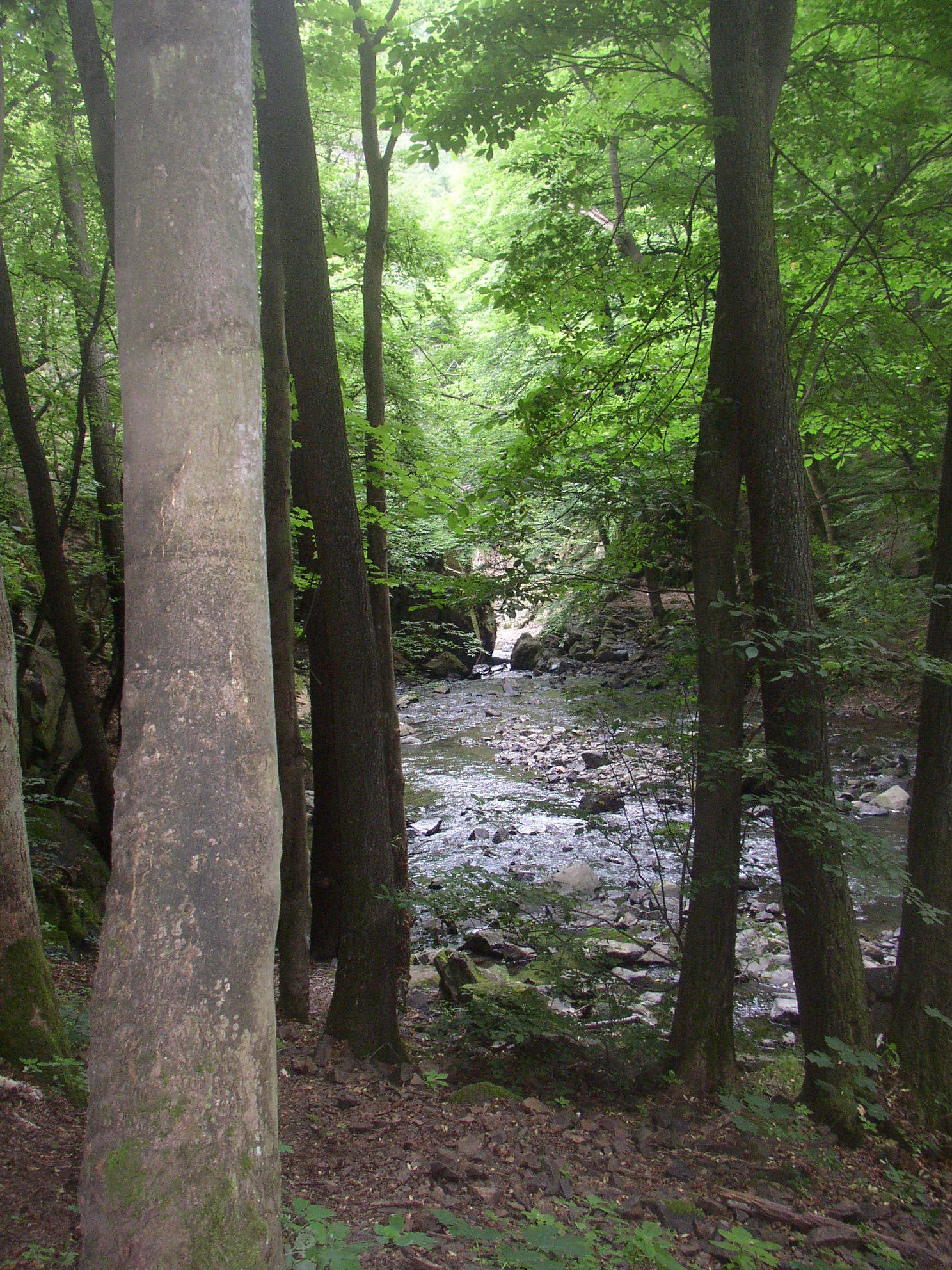 Jezírka Nature Reserve, Rakovník and Rokycany Districts, Czech Republic. The Zbirožský potok stream cutting through a narrow rocky gorge in core of the reserve.